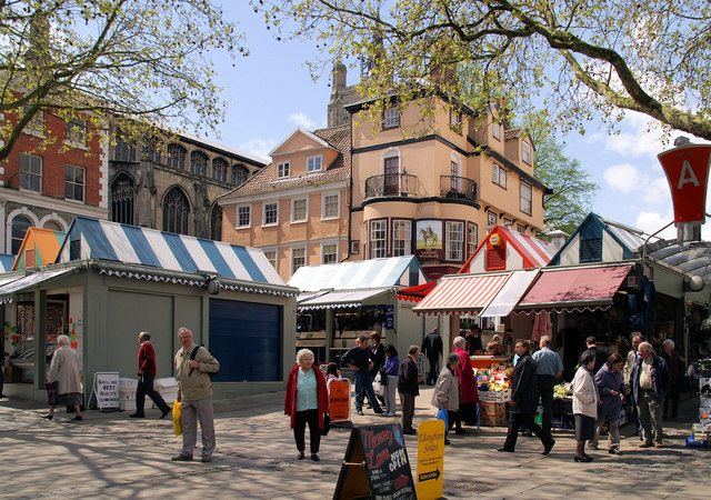 Norwich Market With St Peter Mancroft church and the Sir Garnet Wolseley pub in the background.